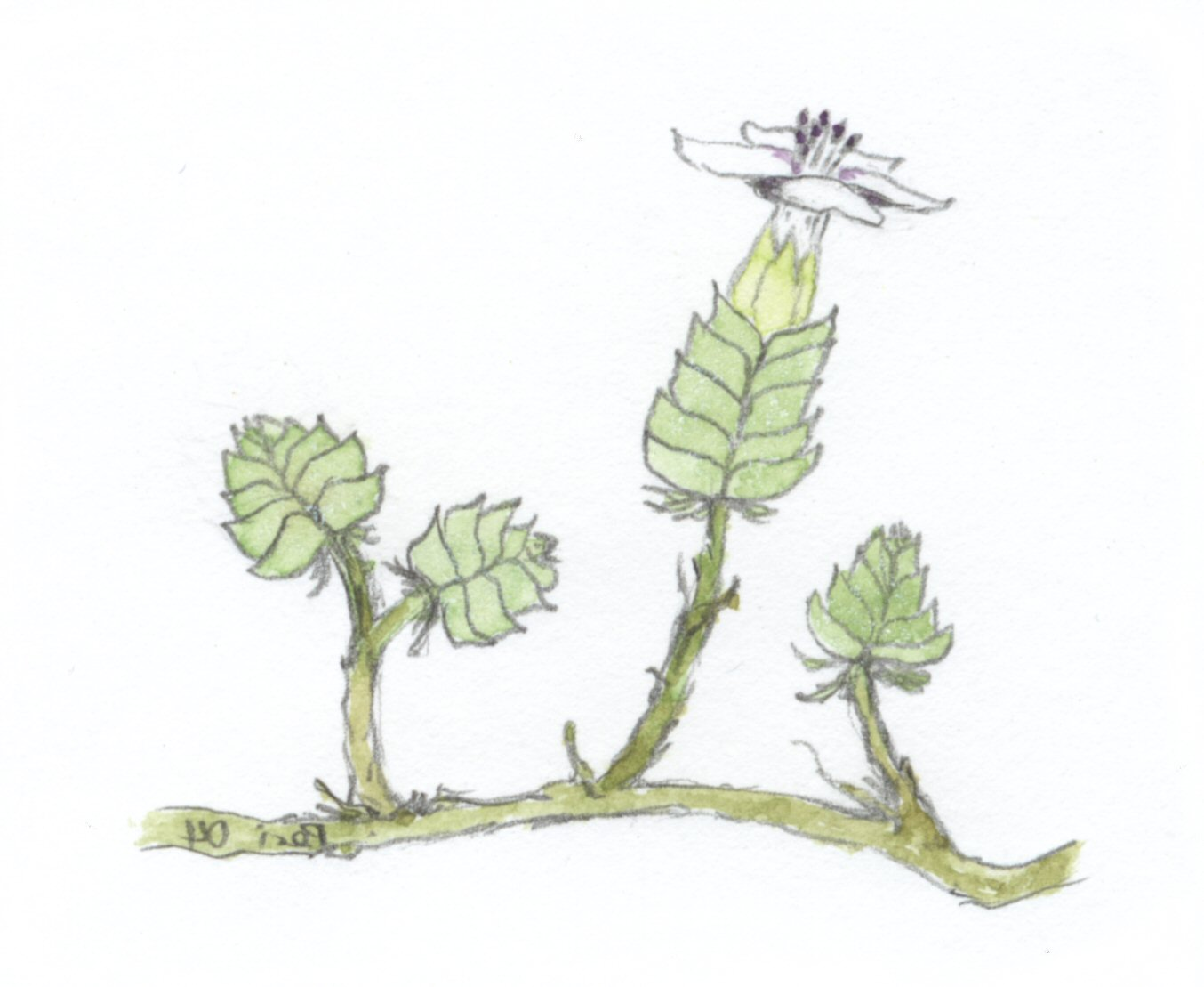 Watercolour of Wilsonia humilis